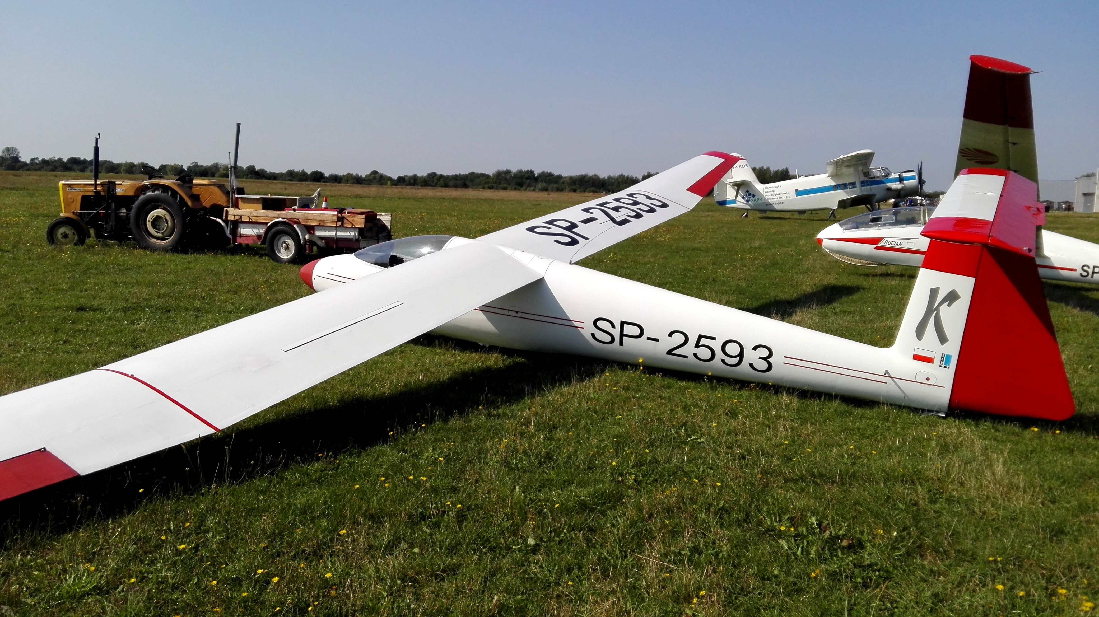 SZD-30 Pirat SP-2593(K)